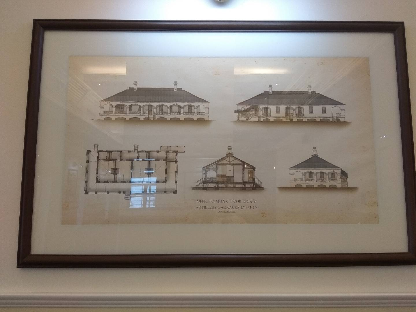 Drawings of old building structure designs of the Artillery Barracks.